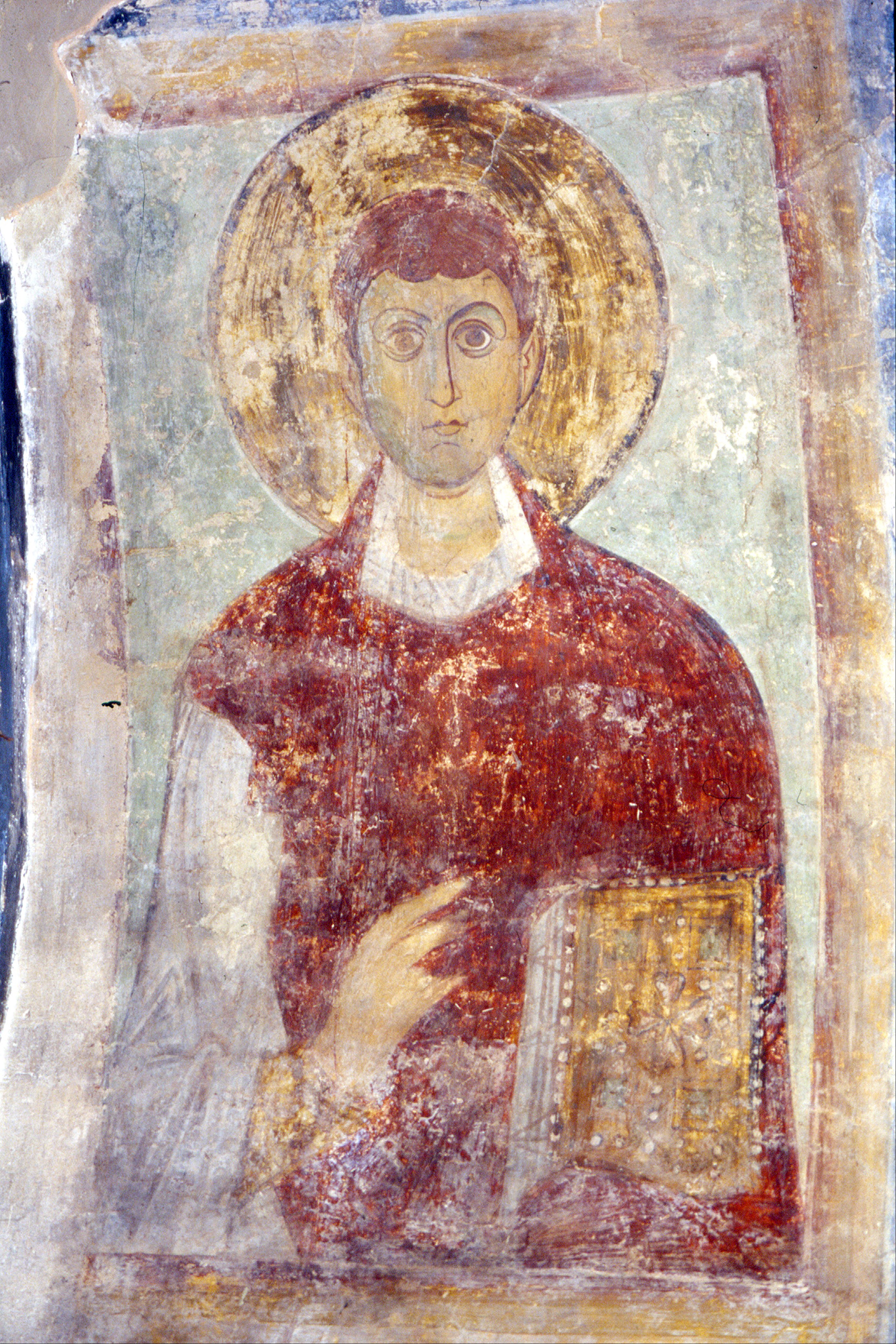 Shoulder-length portrayal of St. Panteleimon. St. Panteleimon is a Christian Saint, honored as a martyr, healer and a doctor. He is considered to be the patron of doctors and sick people sought help from him. Christian church also honored St. Panteleimon as the patron of warriors.